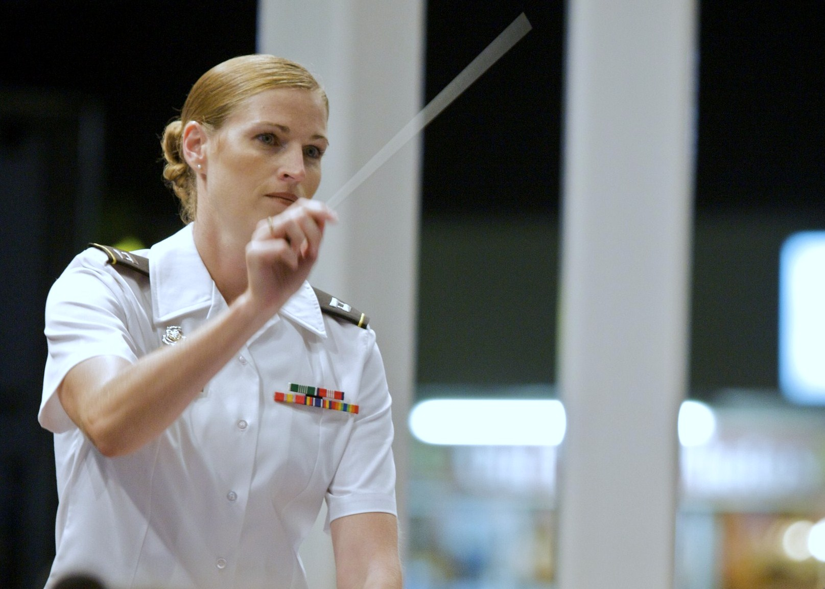 Capt. Sharon Toulouse